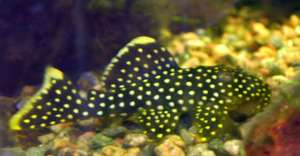 Baryancistrus xanthellus "Golden Nugget". L Number: L-018